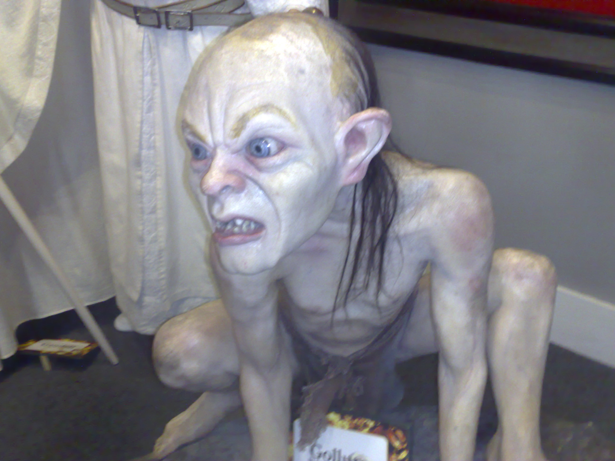 Gollum sculpture at Wax Museum in Mexico City